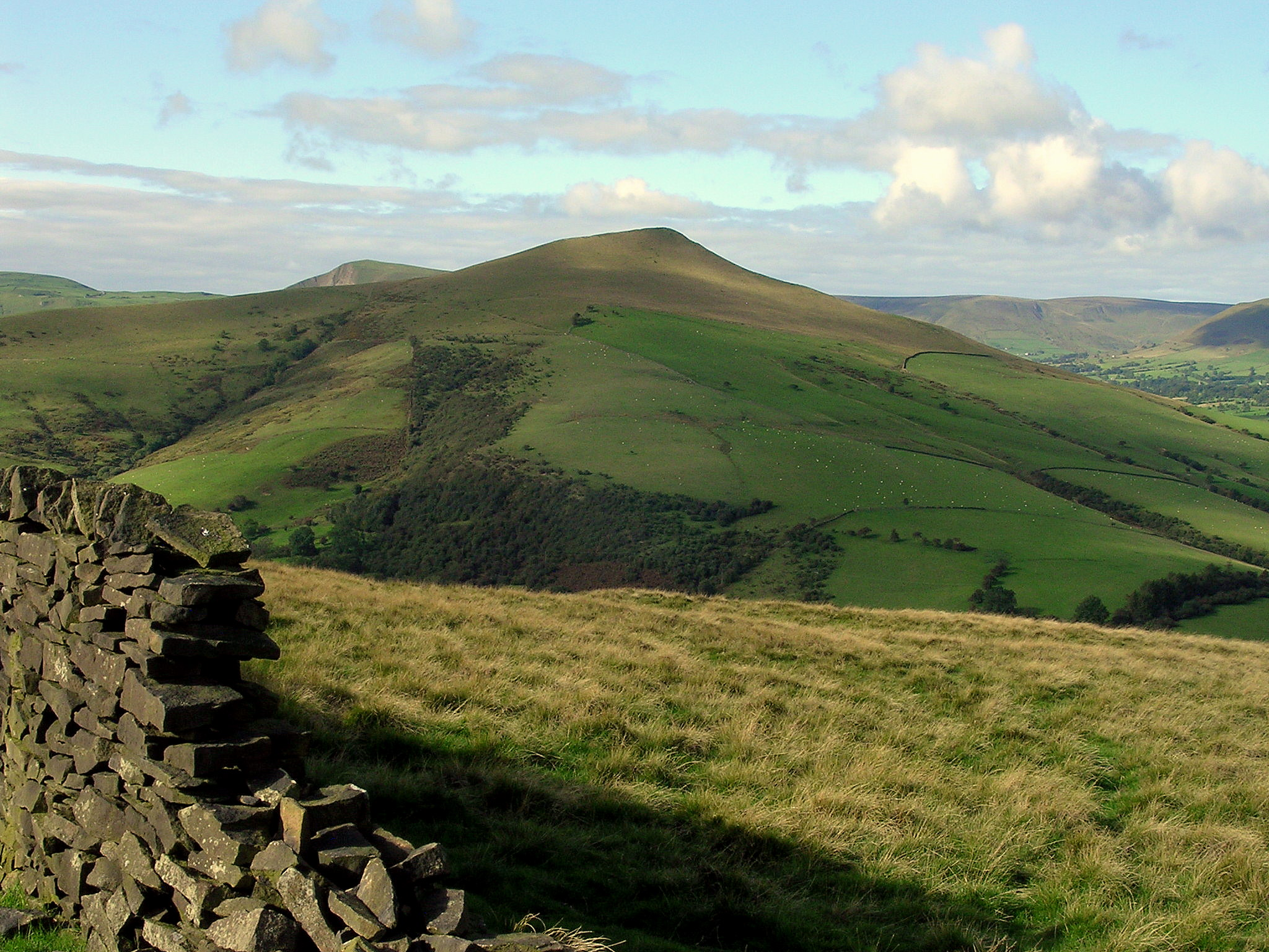 Brian Jones,original photograph of Lose Hill taken from approach to Win Hill